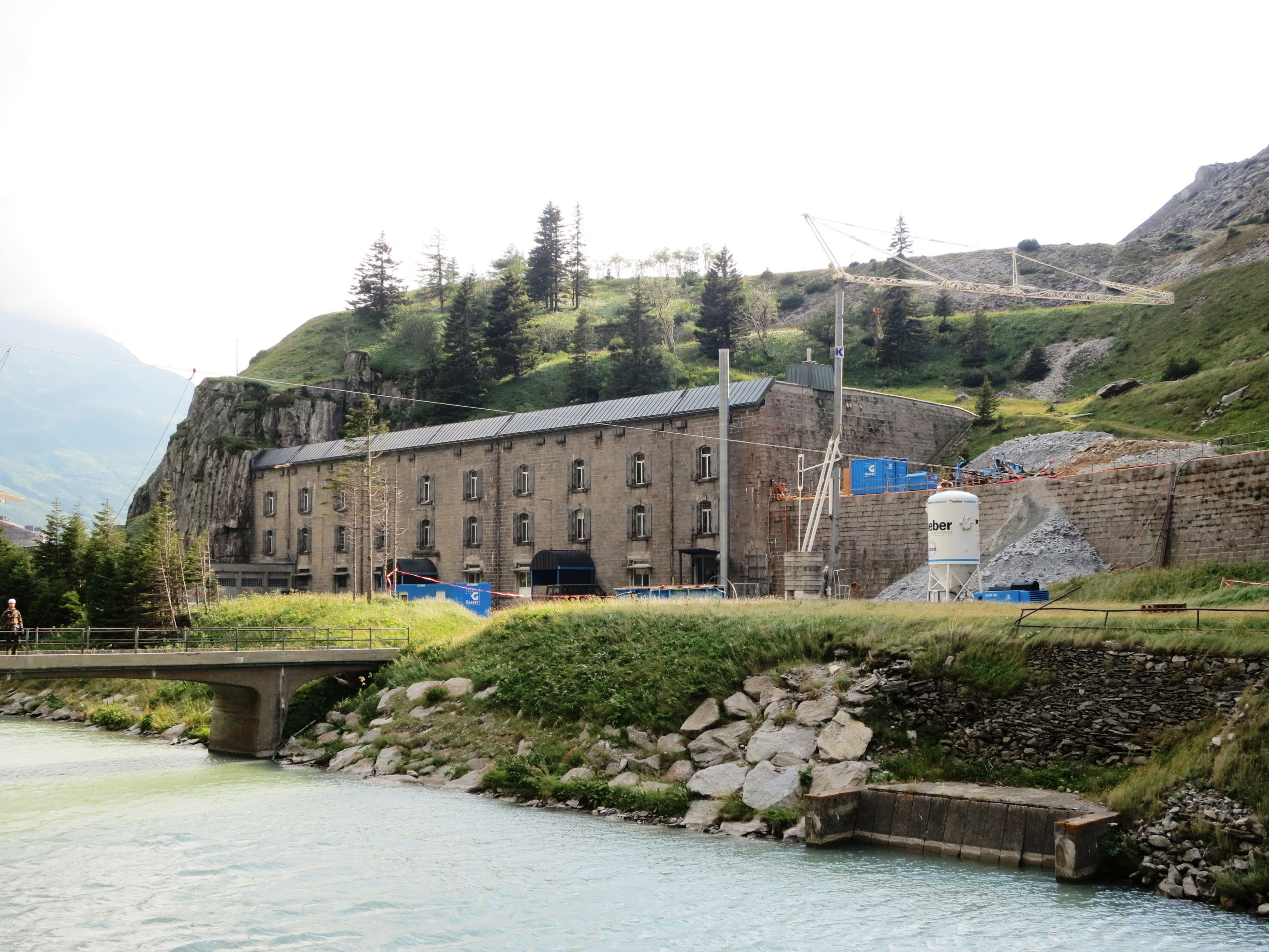 Kriegskaserne Büel von 1907, Andermatt UR, Schweiz